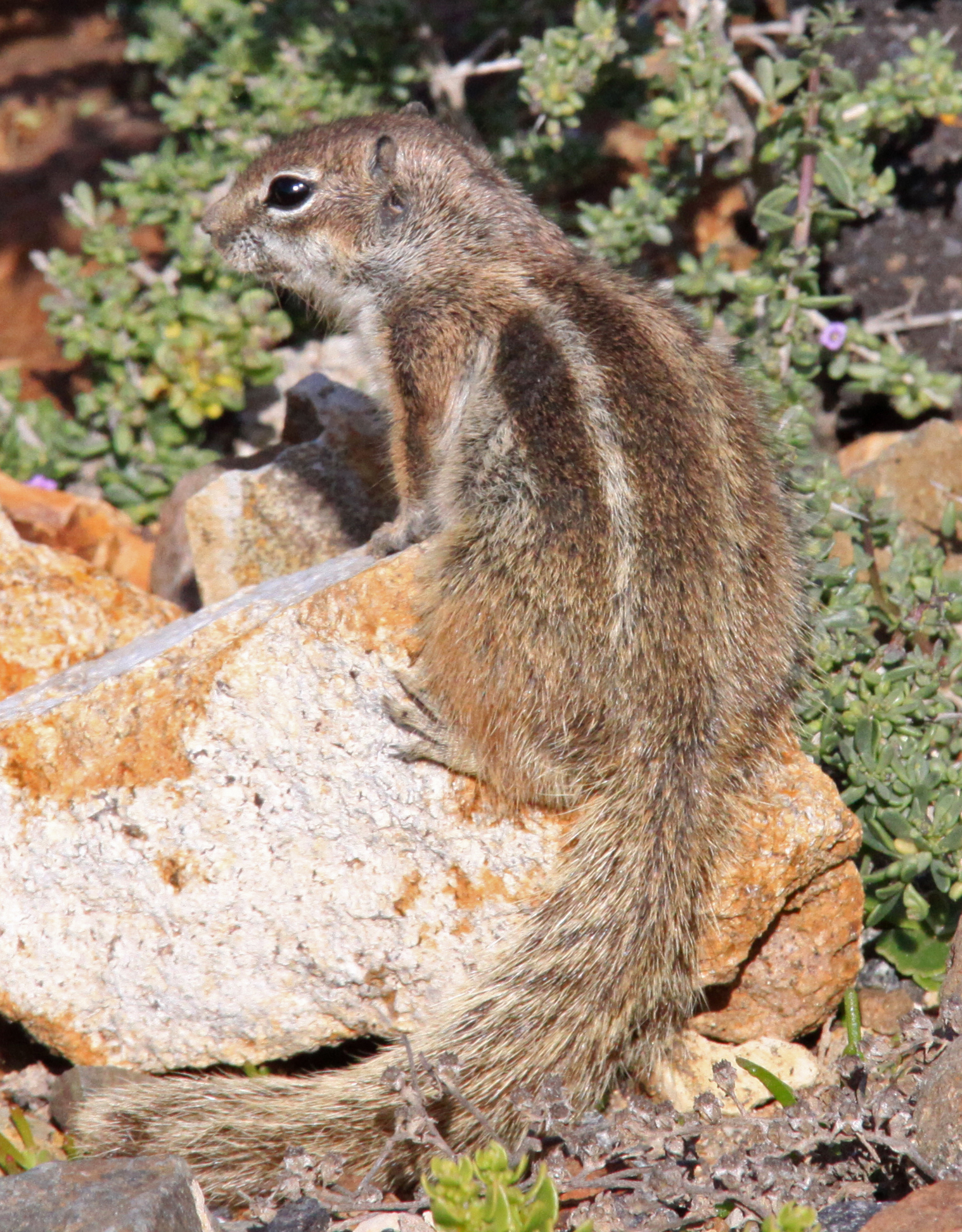 Chipmunk 3